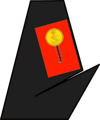 Lapel of an Mishipman of the RNVR